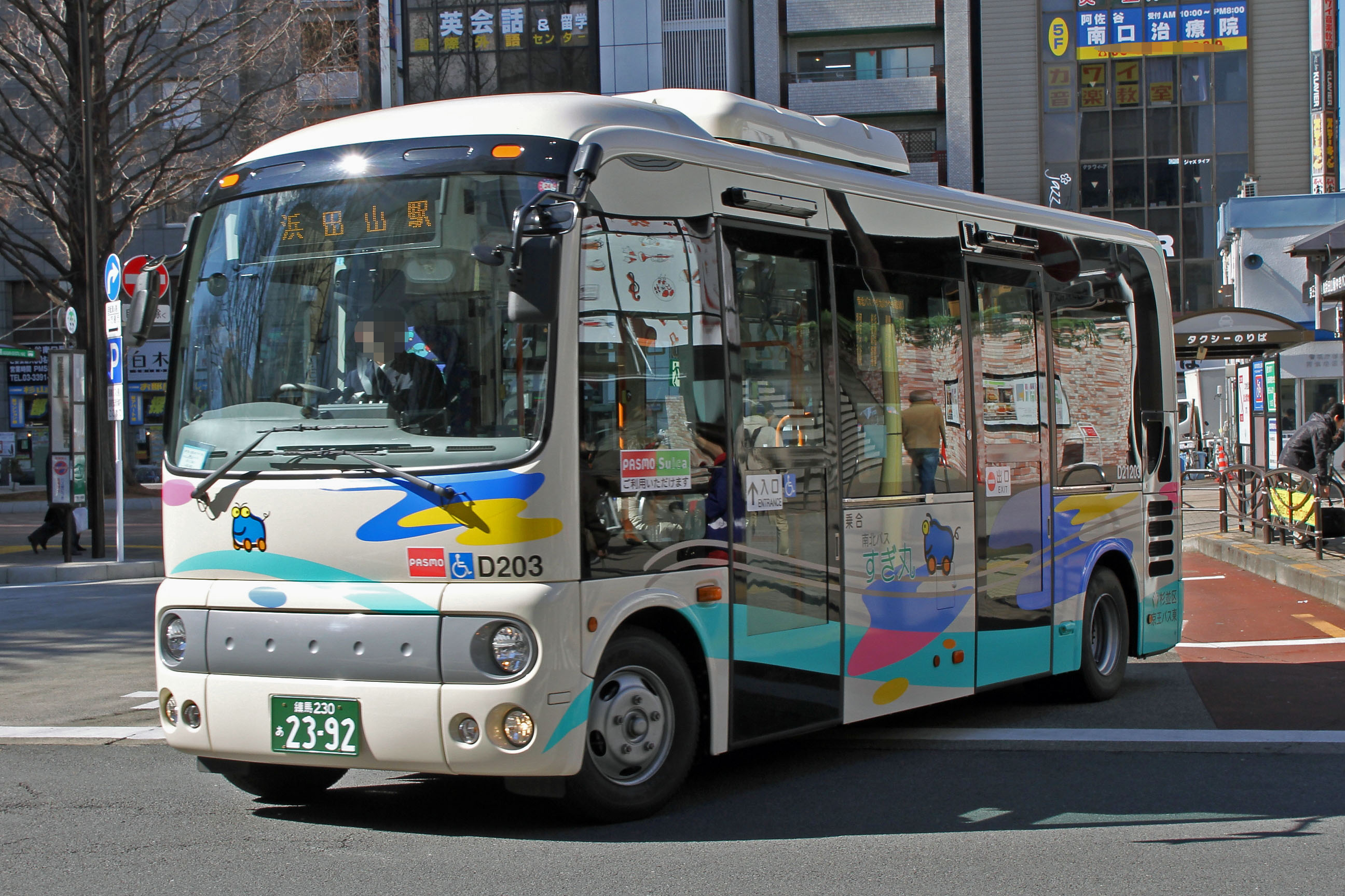 Suginami City Community Bus "Sugimaru" 杉並区南北バス「すぎ丸」